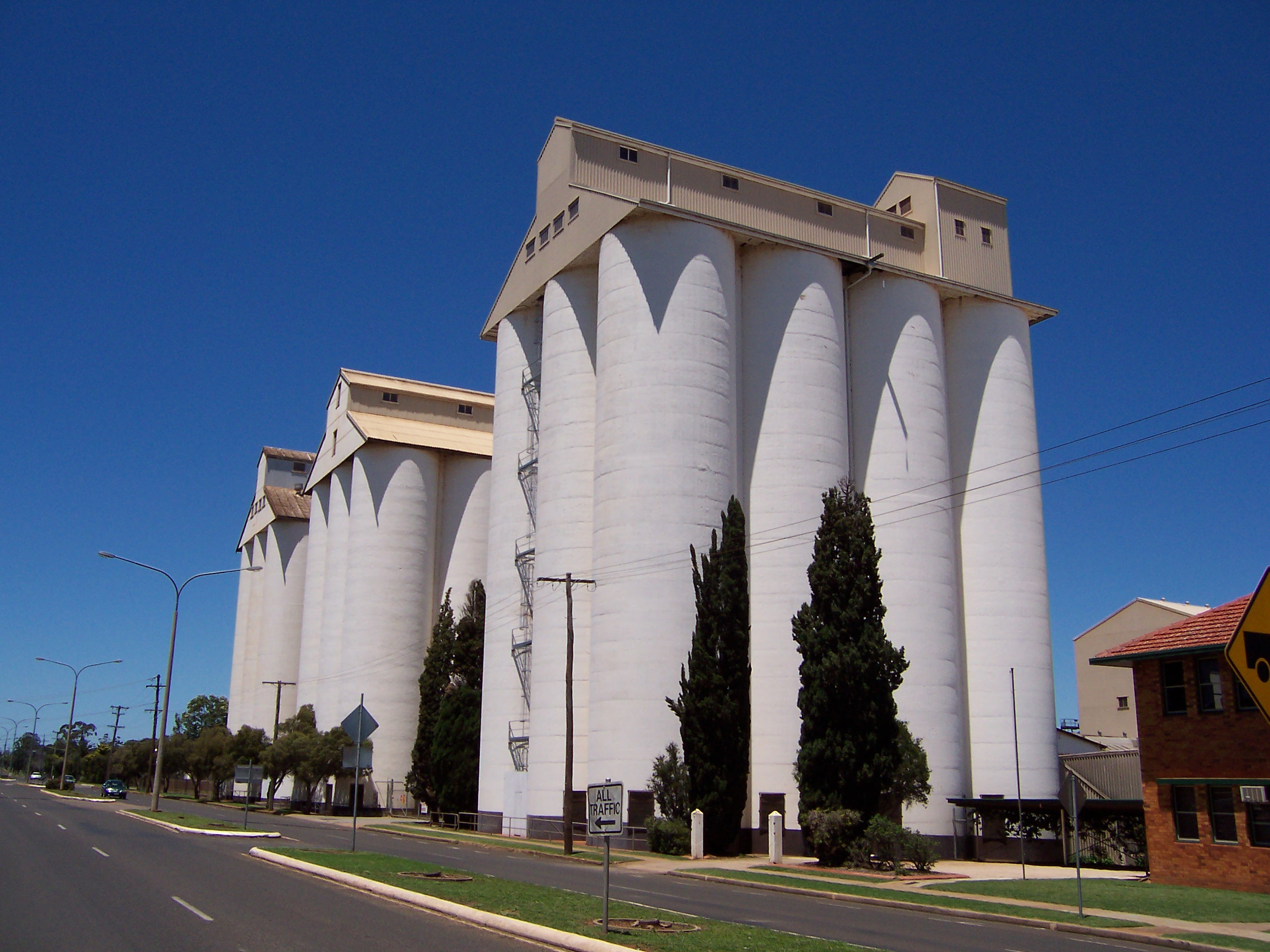 Peanut silos in the main street of Kingaroy, Australia.